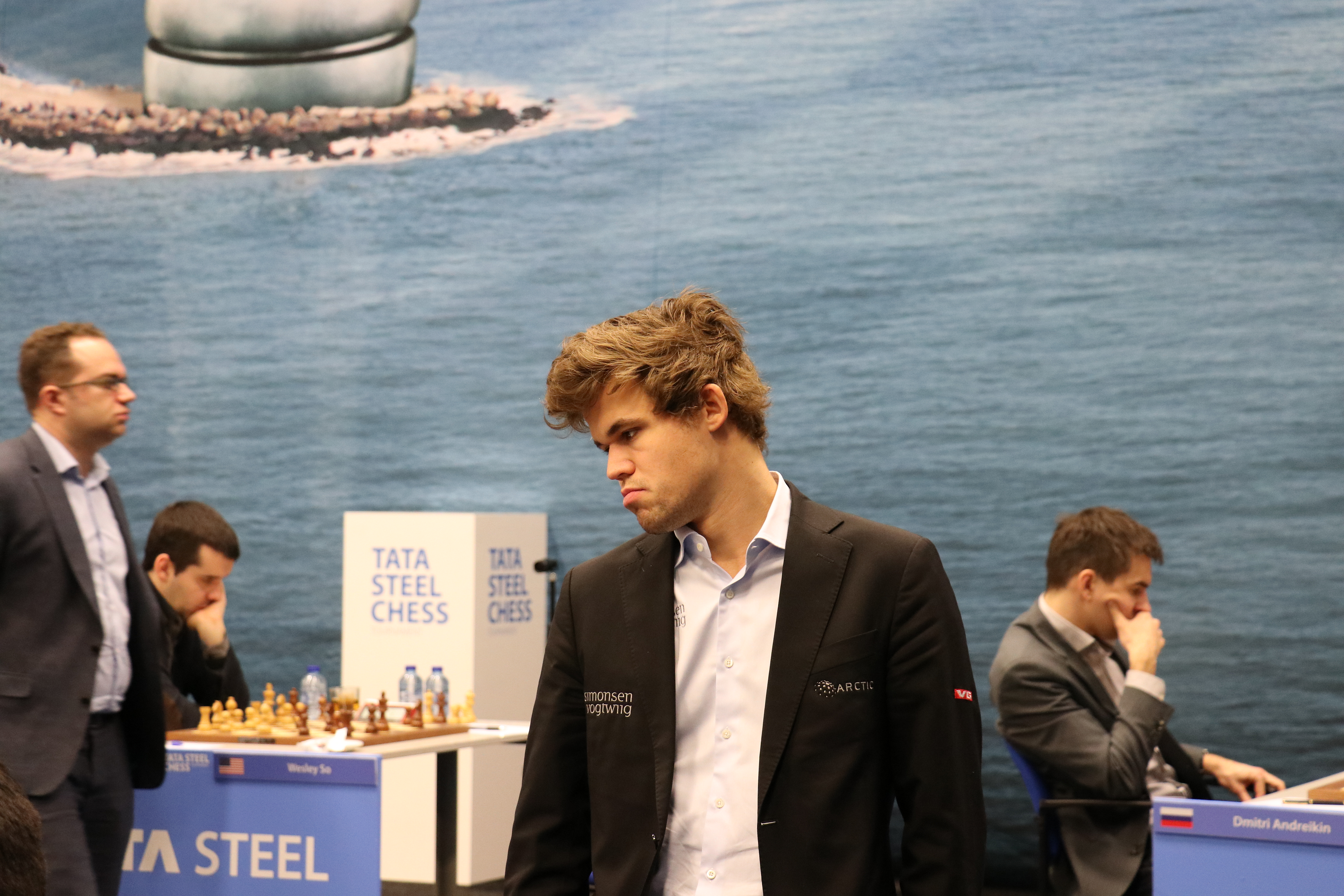 Magnus Carlsen in the last round of Tata Steel chess 2017